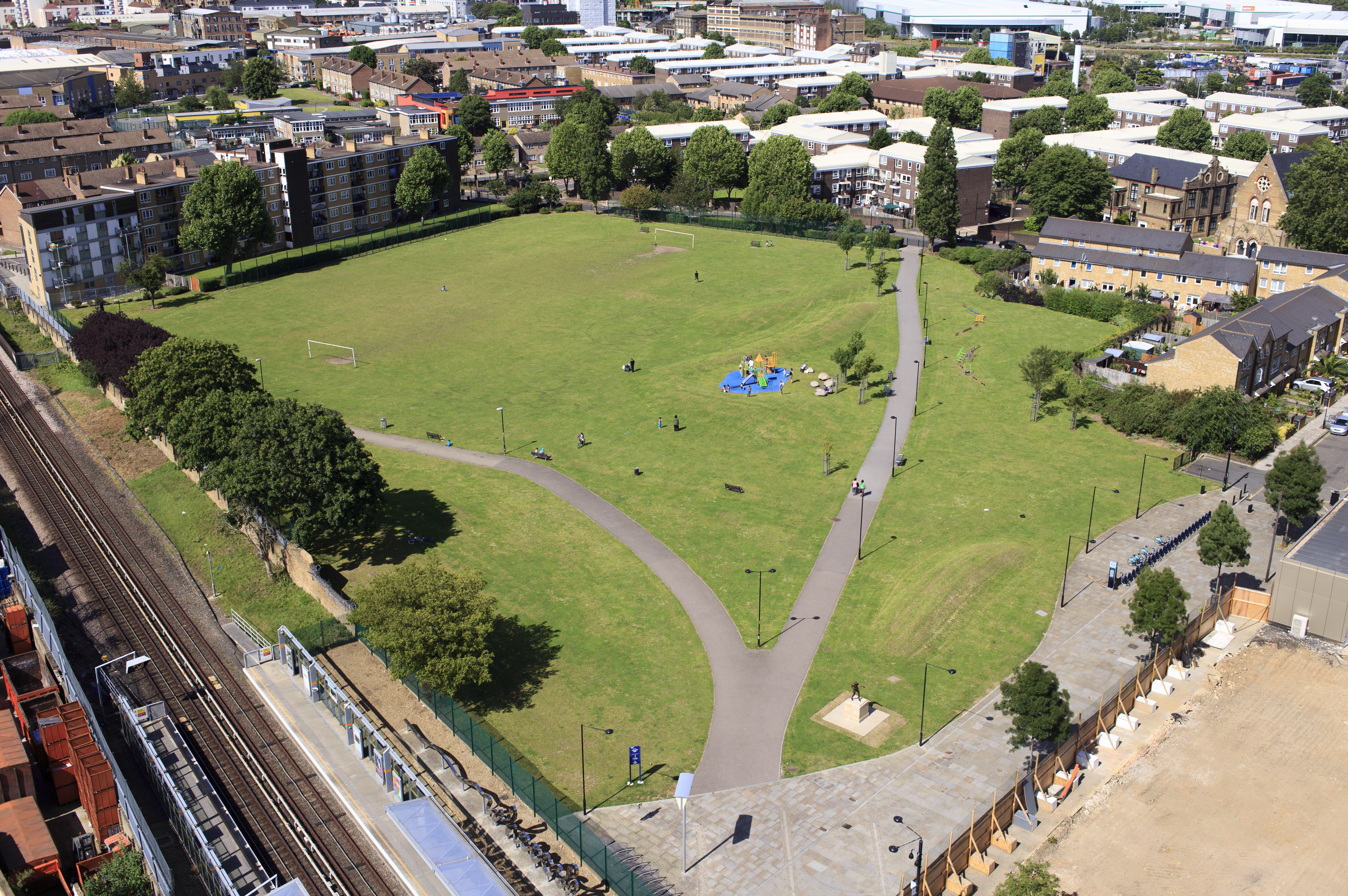 A view of Langdon Park from the 15th floor of nearby "Parkview Apartments" on an early-June summer's day.